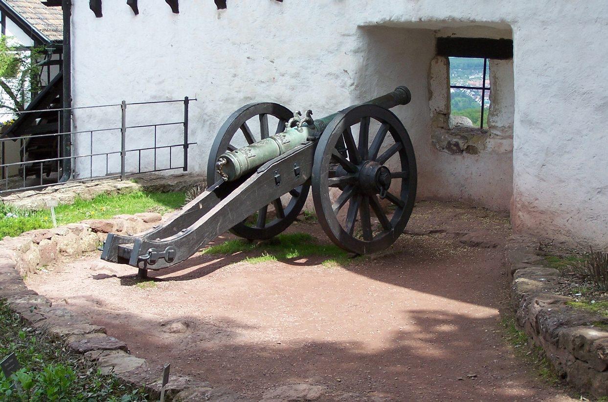 A gun at the parapet Elisabethengang.